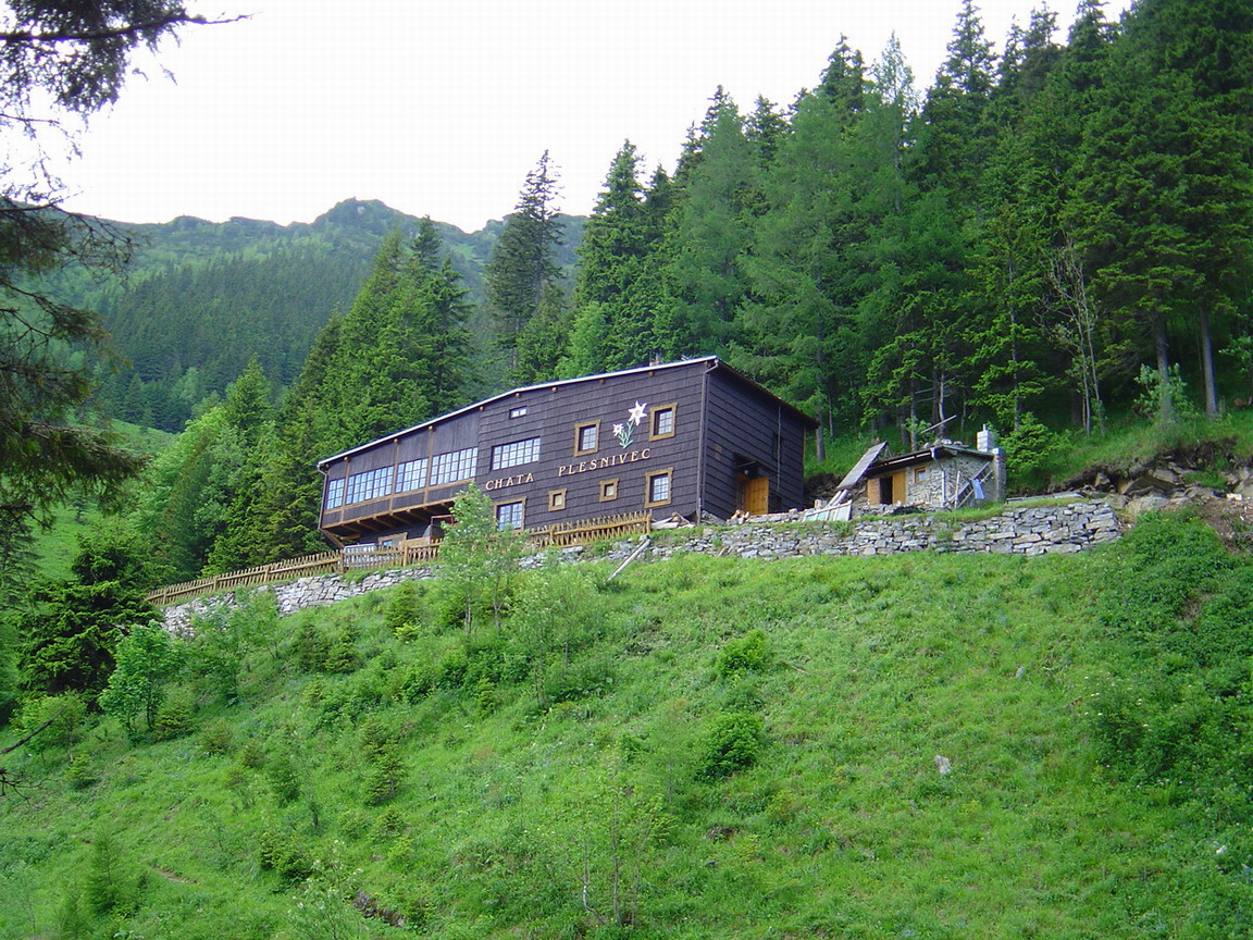 Chata Plesnivec (Cottage of Plesnivec)